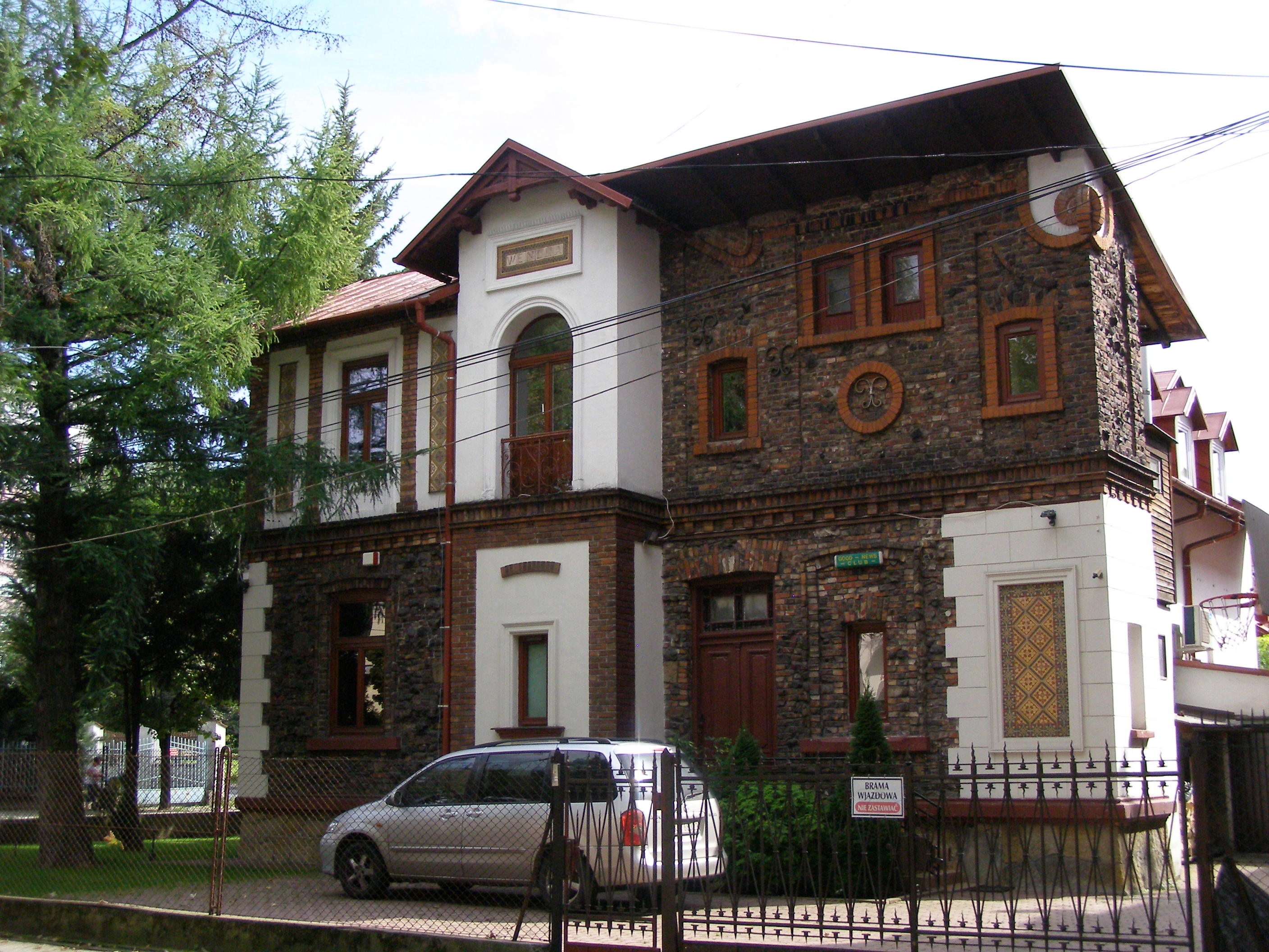 Tarnów - baptist church